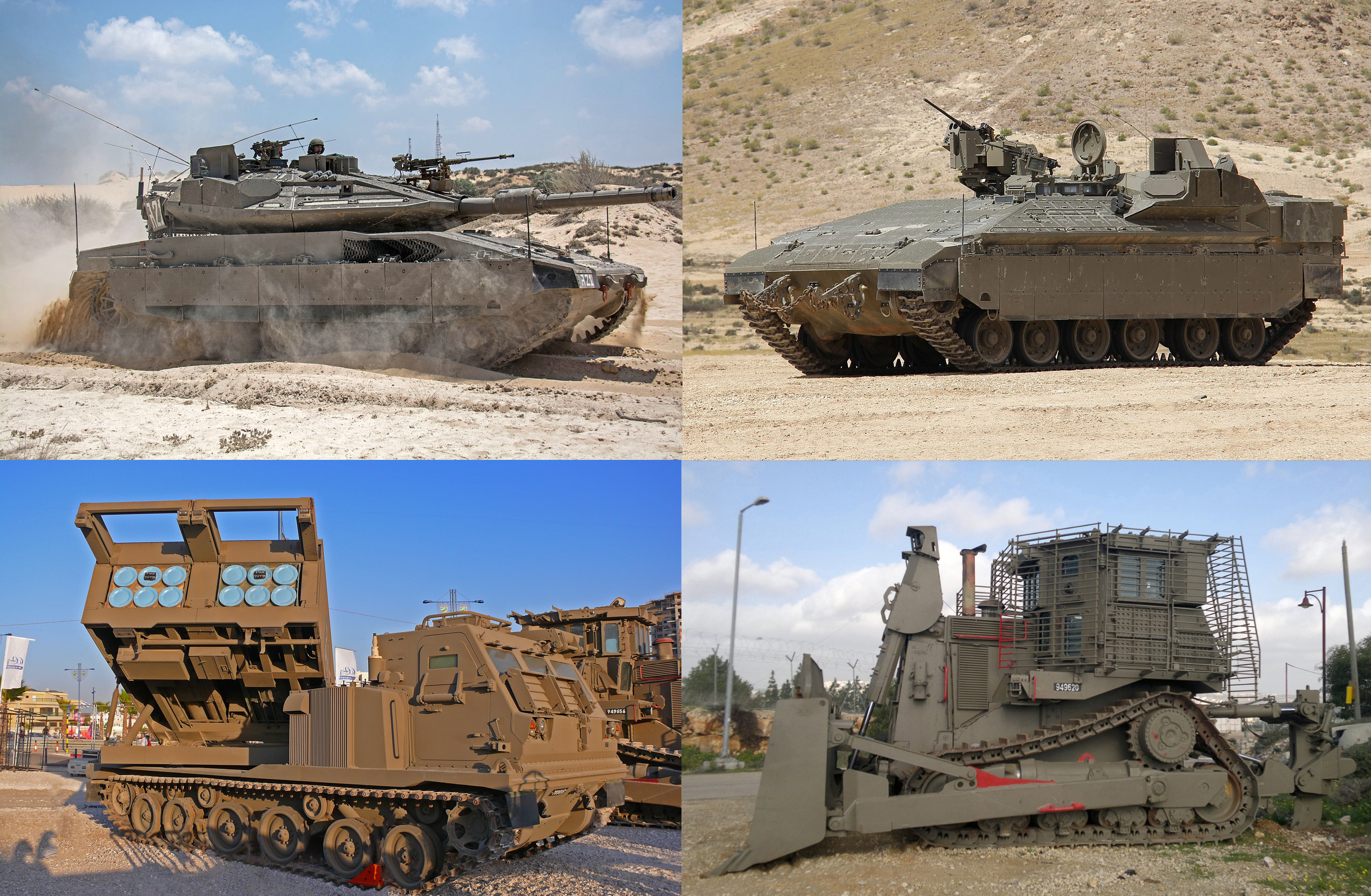 Israel Defense Forces Military Ground Vehicles: top left - Merkava Mk 4M, top right - Namer APC, bottom left - M-270 MLRS Menatetz, bottom right - IDF Caterpillar D9.